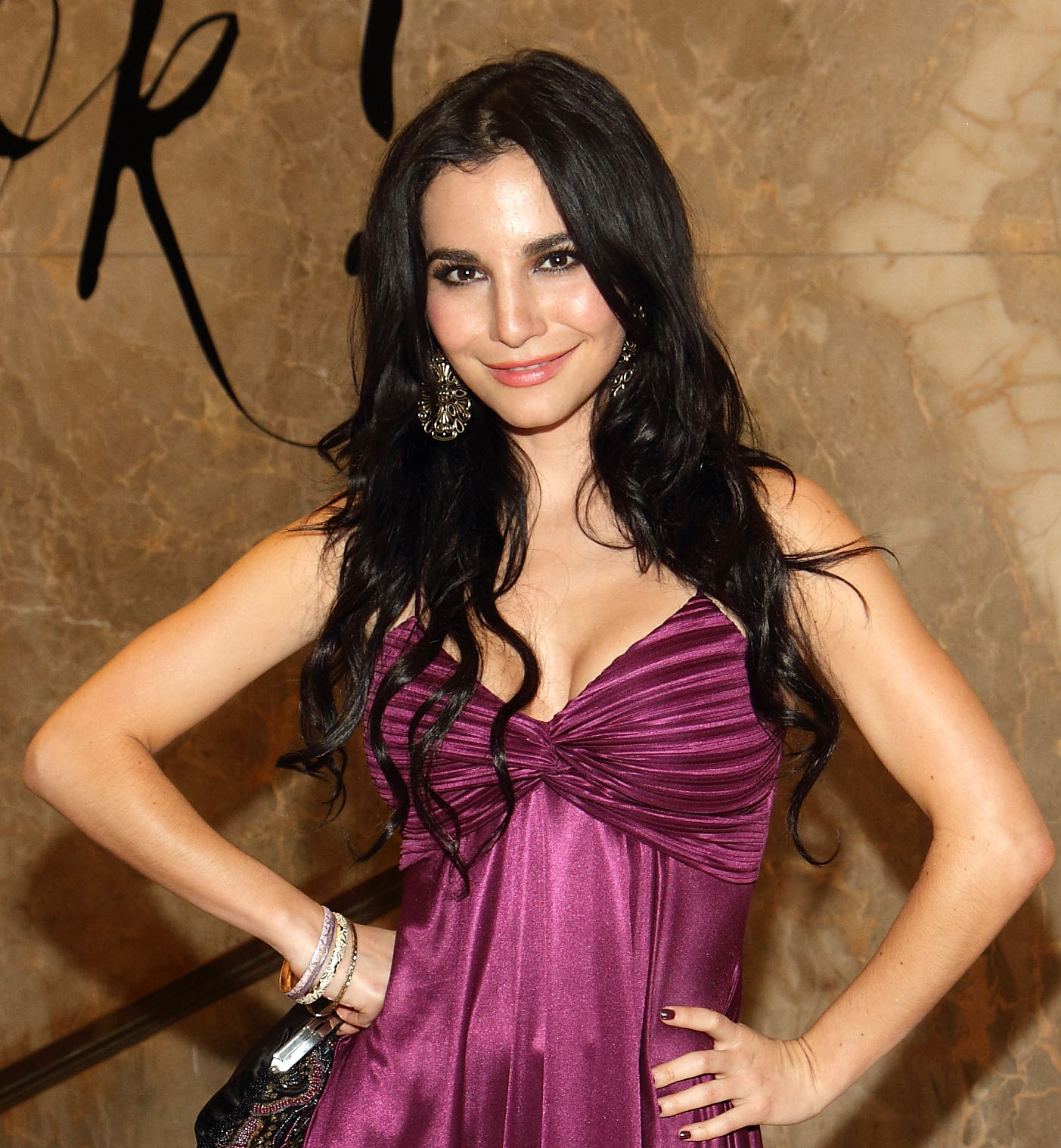 Actress Martha Higareda at the 2012 Miami International Film Festival XO Cafe Noir Opening Night Party Friday, March 2, 2012 at the Historic Alfred I. Dupont Building